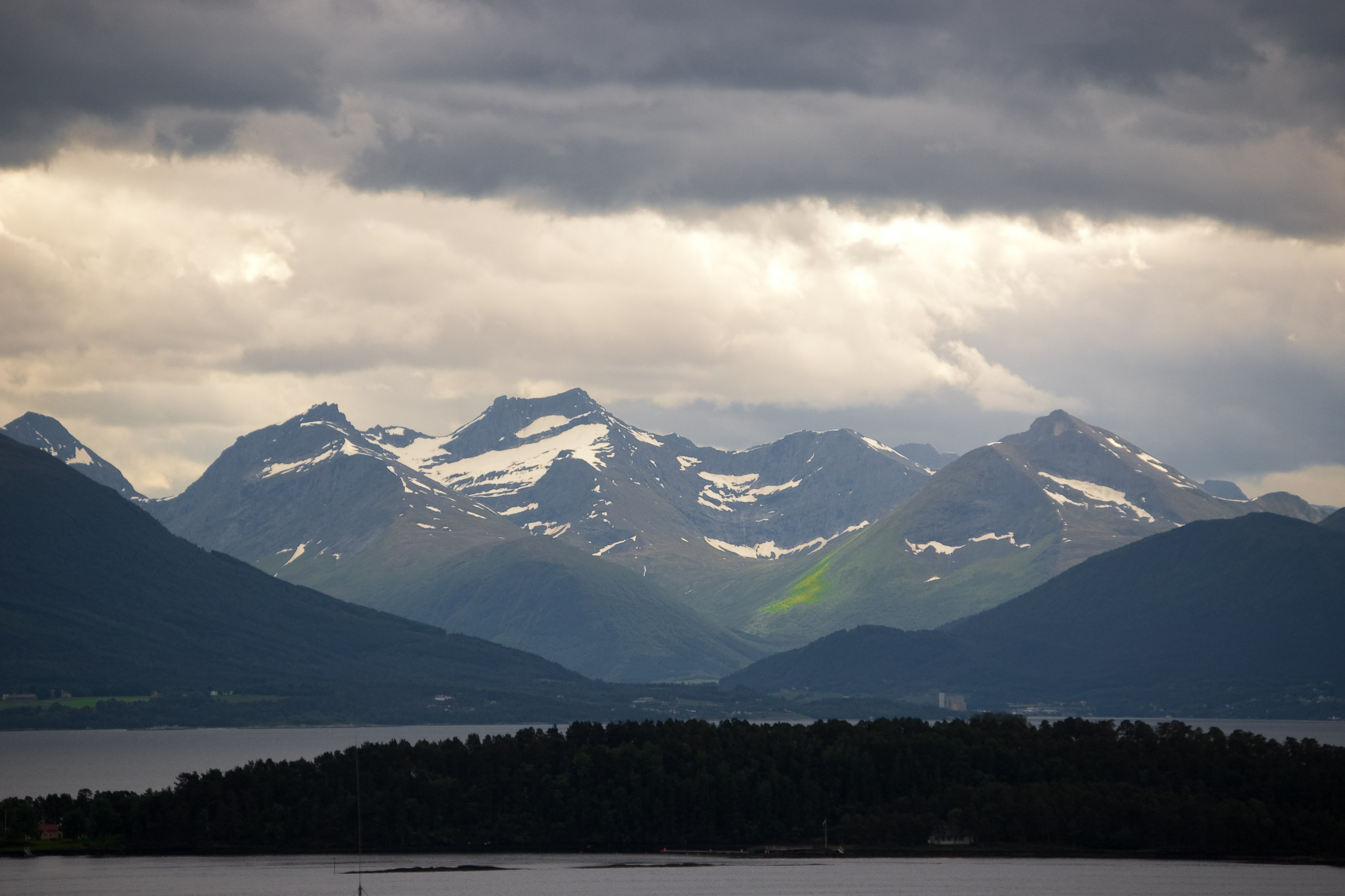 Hjertøya, an island in Molde, Norway. Seen to the south.